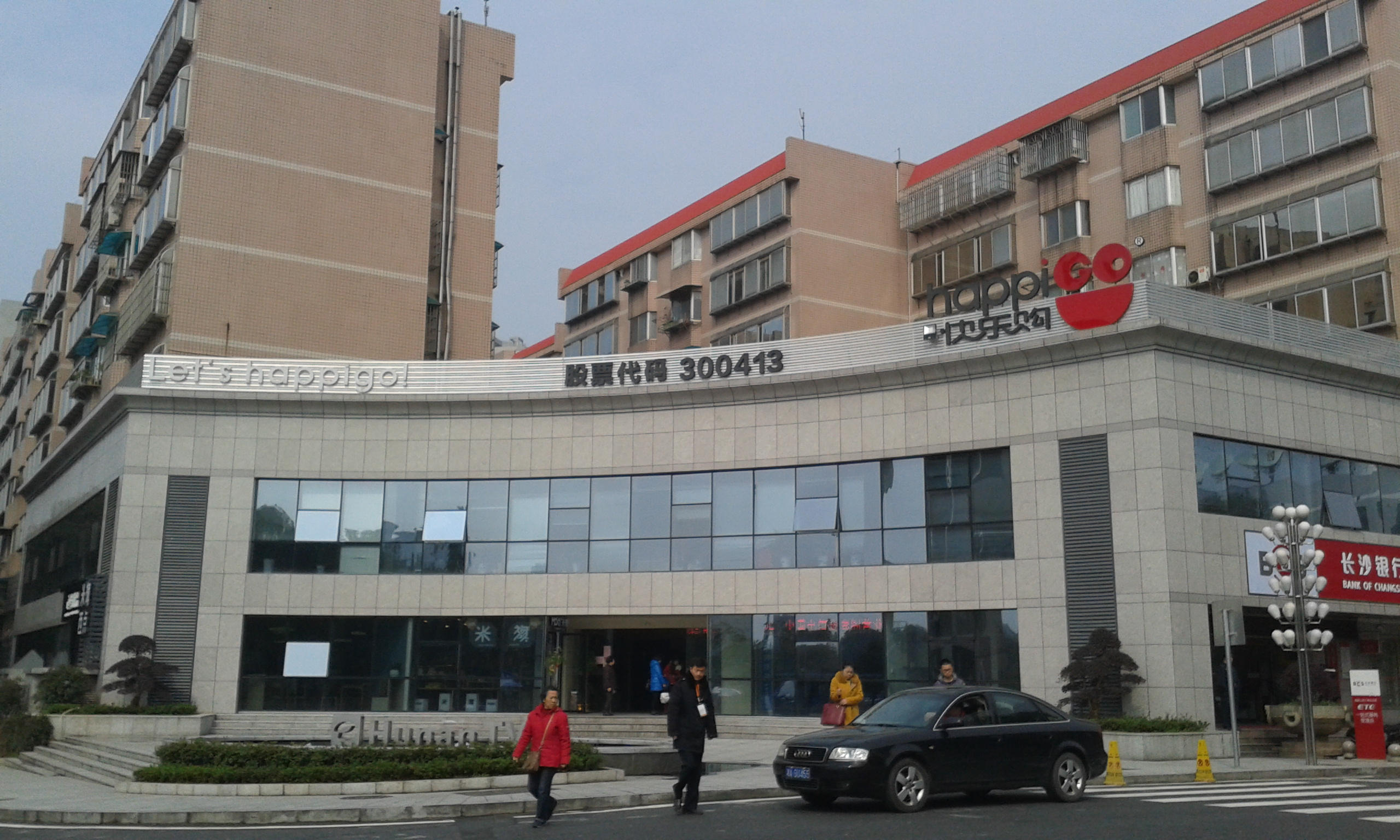 Happigo Builing